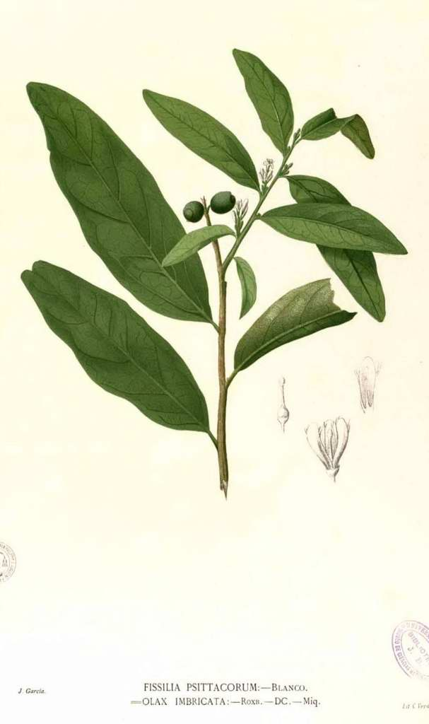 Olax imbricata Plate from book